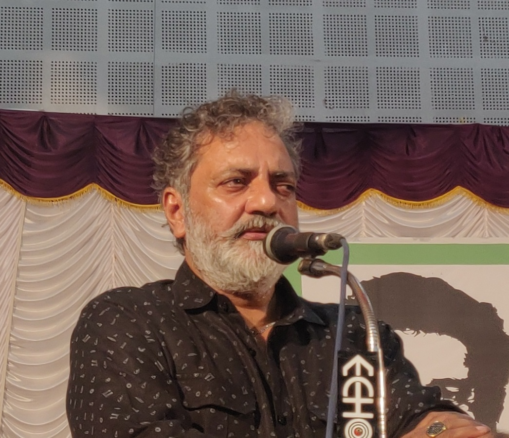 Joy mathew actor at joyormapperunnal seminar at municipal townhall Kodungalloor, Kerala, India